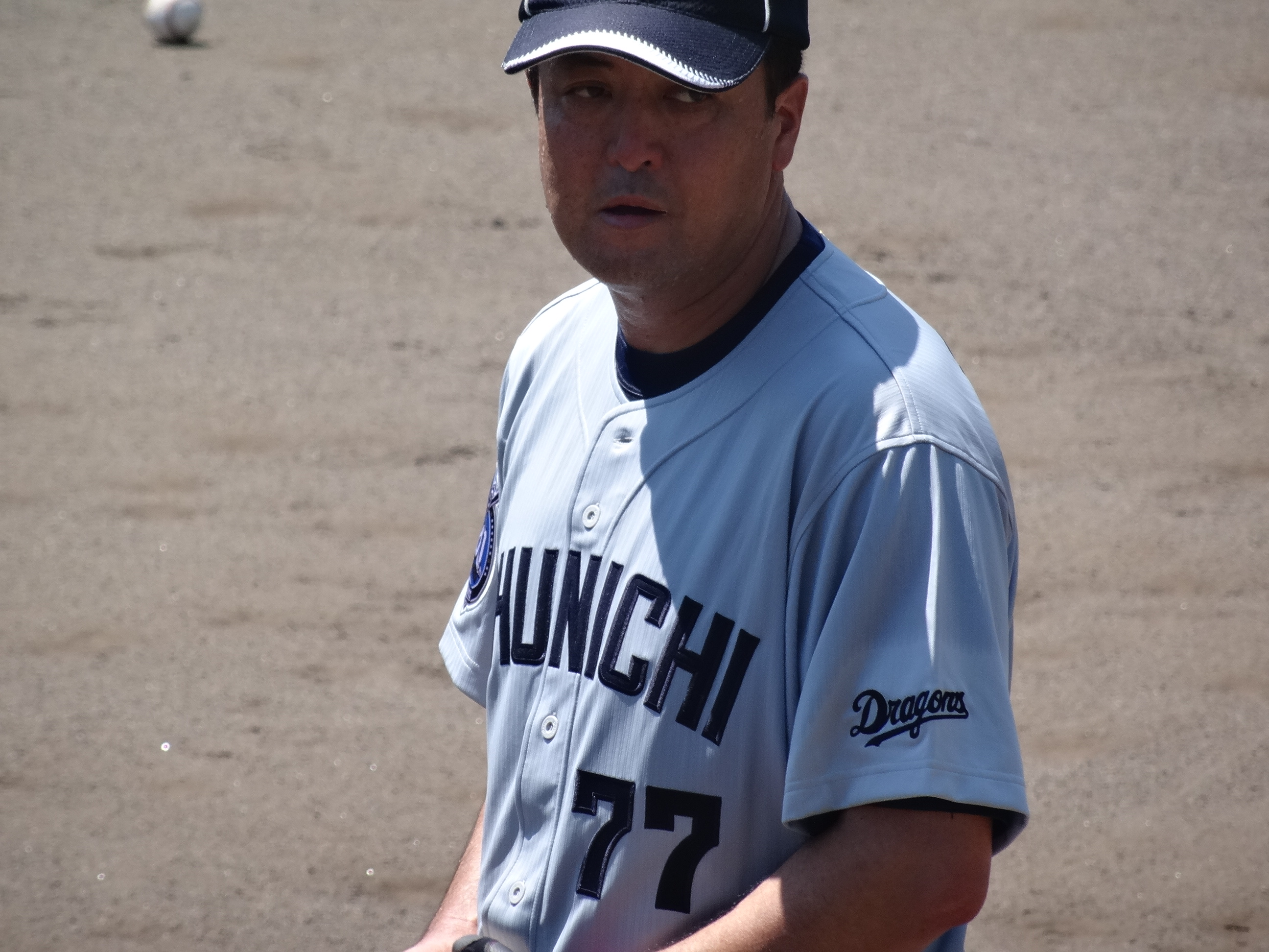 Hiroyuki Watanabe, coach of the Chunichi Dragons, at Hanshin Naruohama Baseball Ground